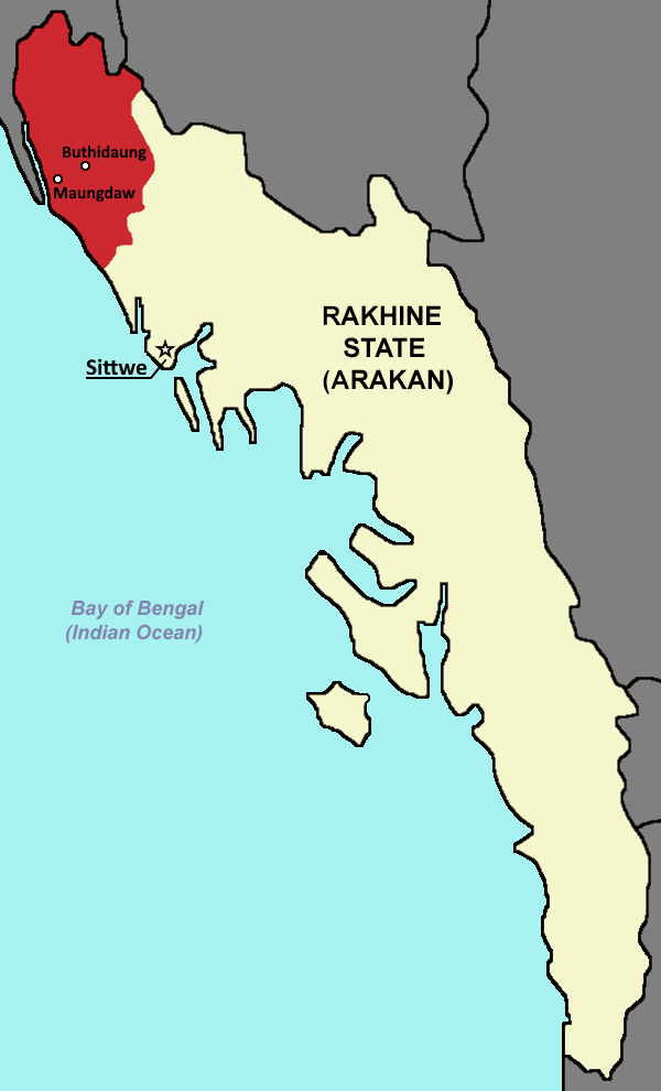 Map of Rakhine State (Arakan) with Maungdaw District containing Buthidaung and Maungdaw Townships highlighted in red.